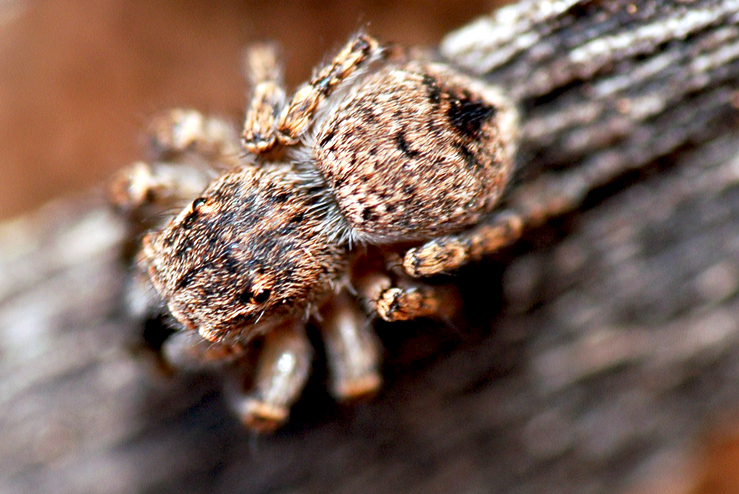 This girl came near a male about half her size and sat and watched. The ants were bothering her, so she grabbed one, jumped onto another stick and proceeded to ignore the male while eating the ant.